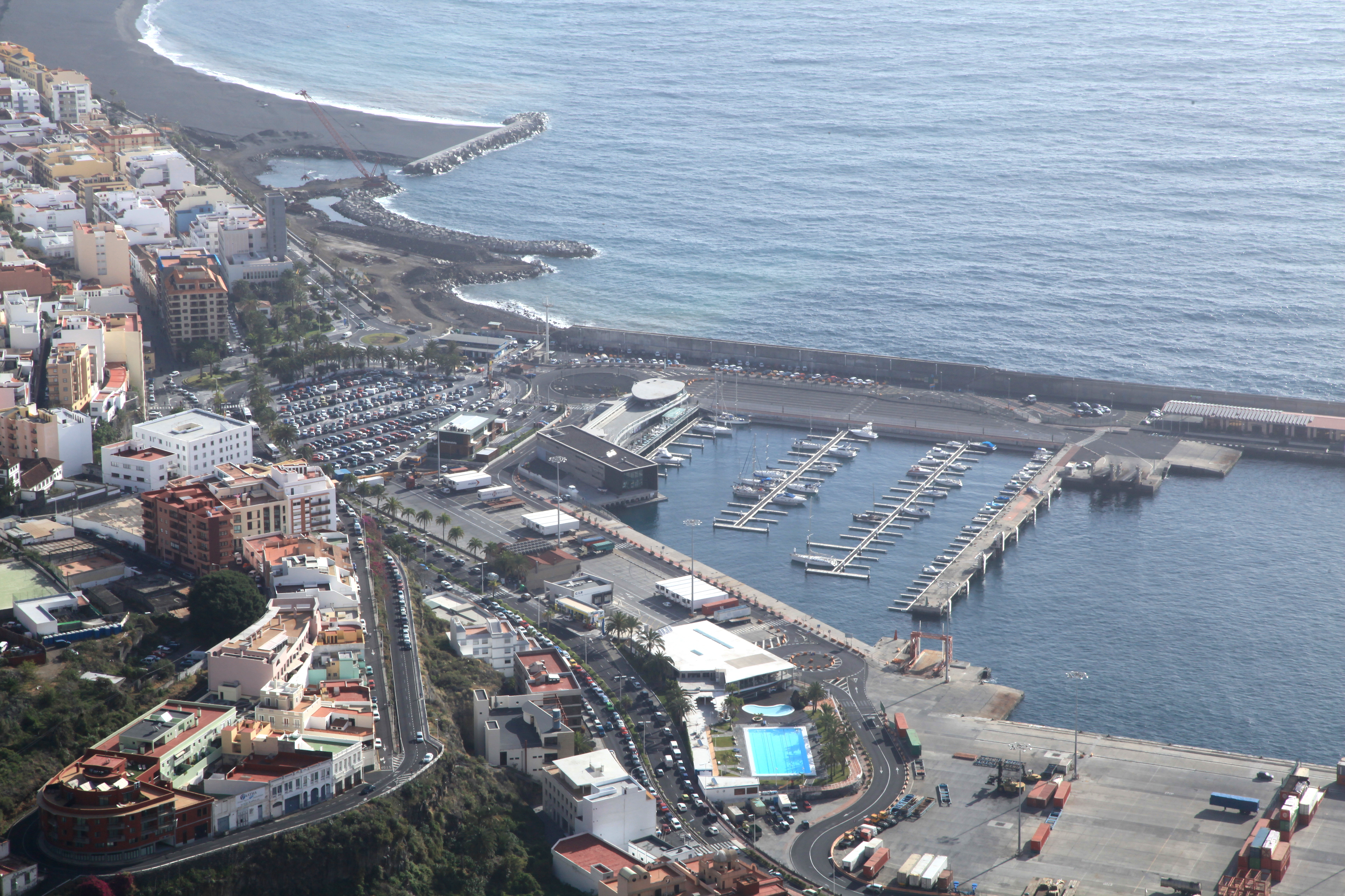 Views from Mirador de La Concepción in Breña Alta down to Carretera del Galión, Avenida Los Indianos, Avenida Maritima, Port of Santa Cruz de La Palma and the McDonald's restaurant in the outer port area in Santa Cruz de La Palma, La Palma, Canary Island, Spain